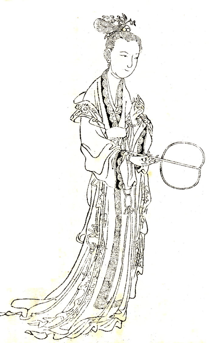 Ban Chieyu (班倢伃) was a lover of Emperor Cheng of Han and a famous poet.